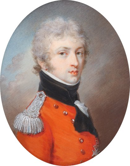 Portrait of Henryk Lubomirski (1777-1850)